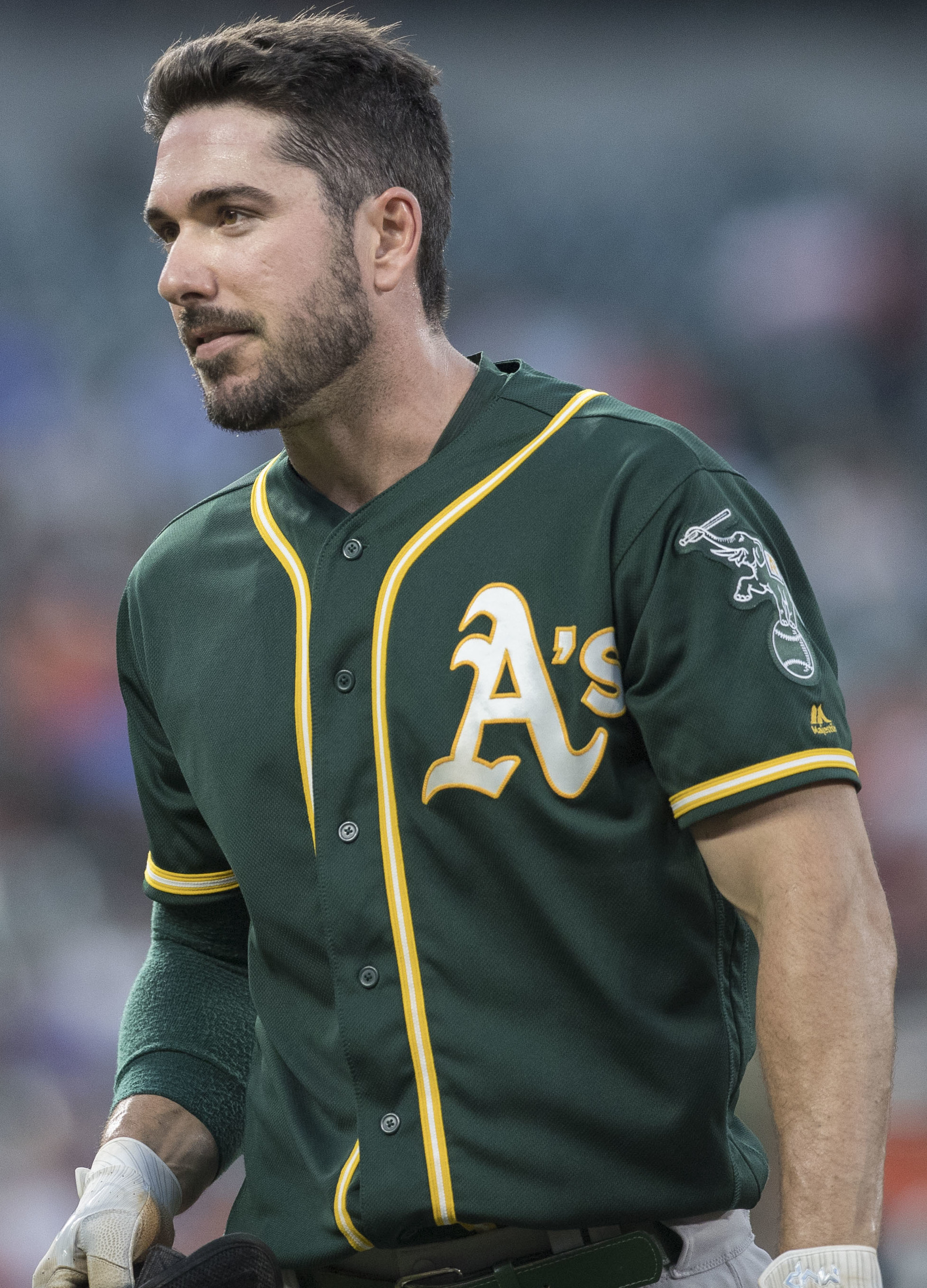 A's at Orioles 8/22/17